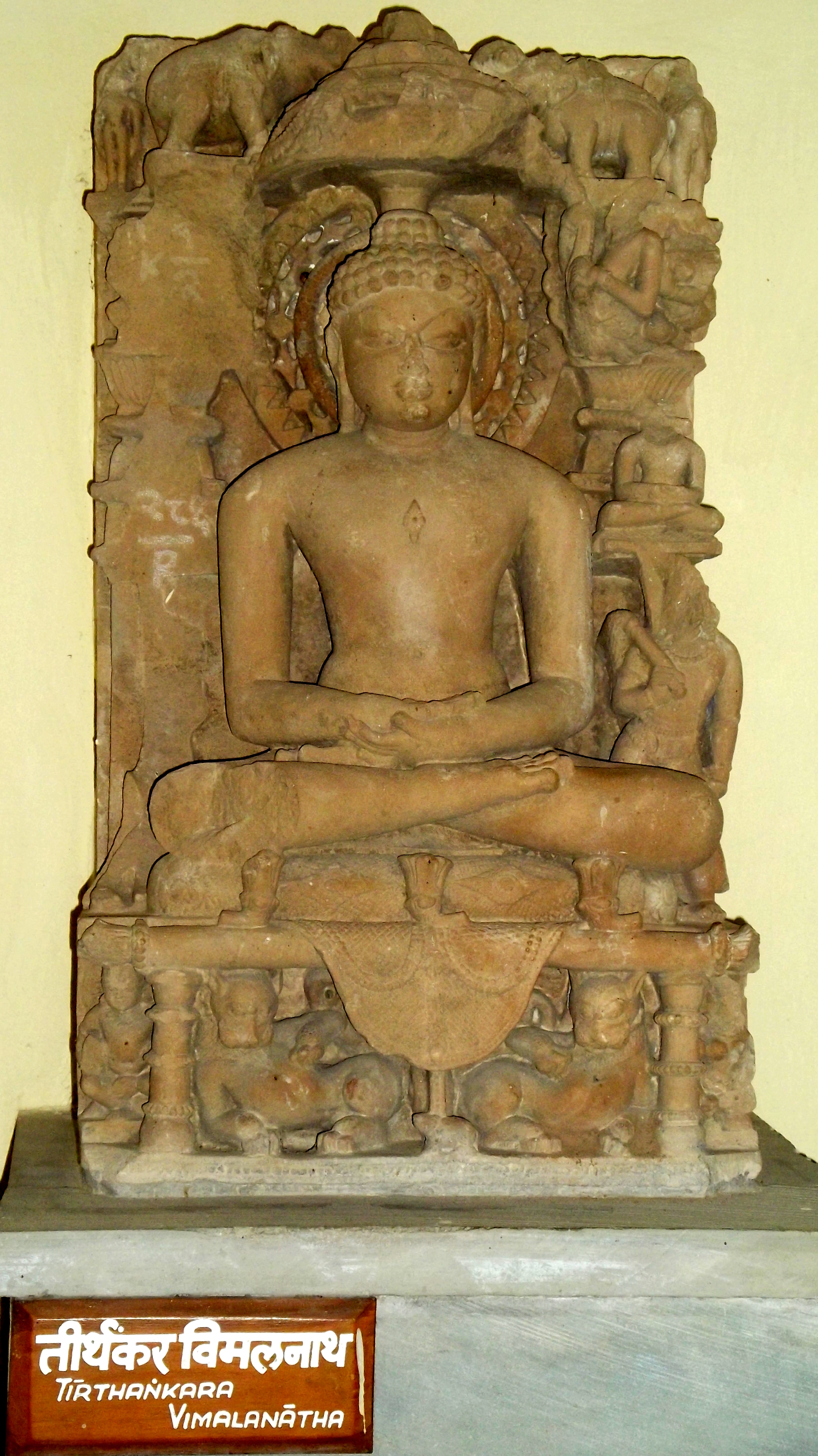 Image of Tirthankara.Vimalnath at a museum in India